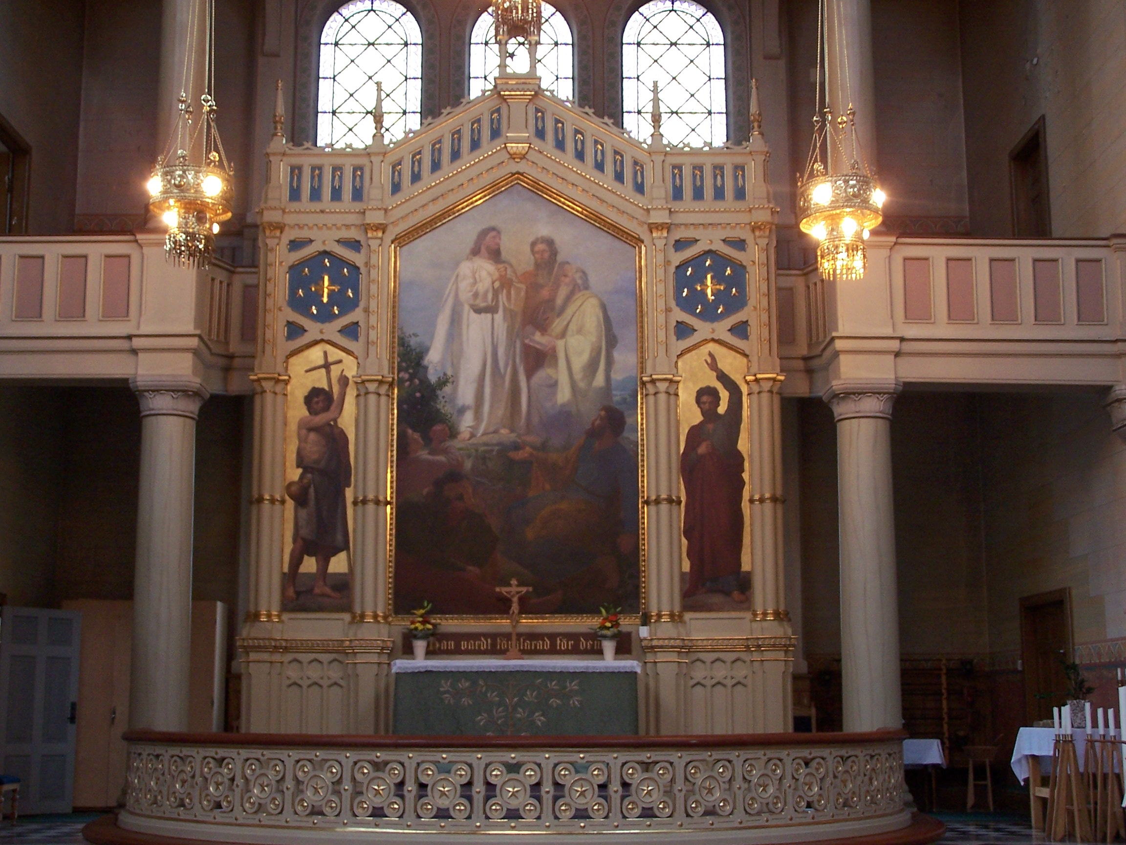 Altar in Sankt Pauli church